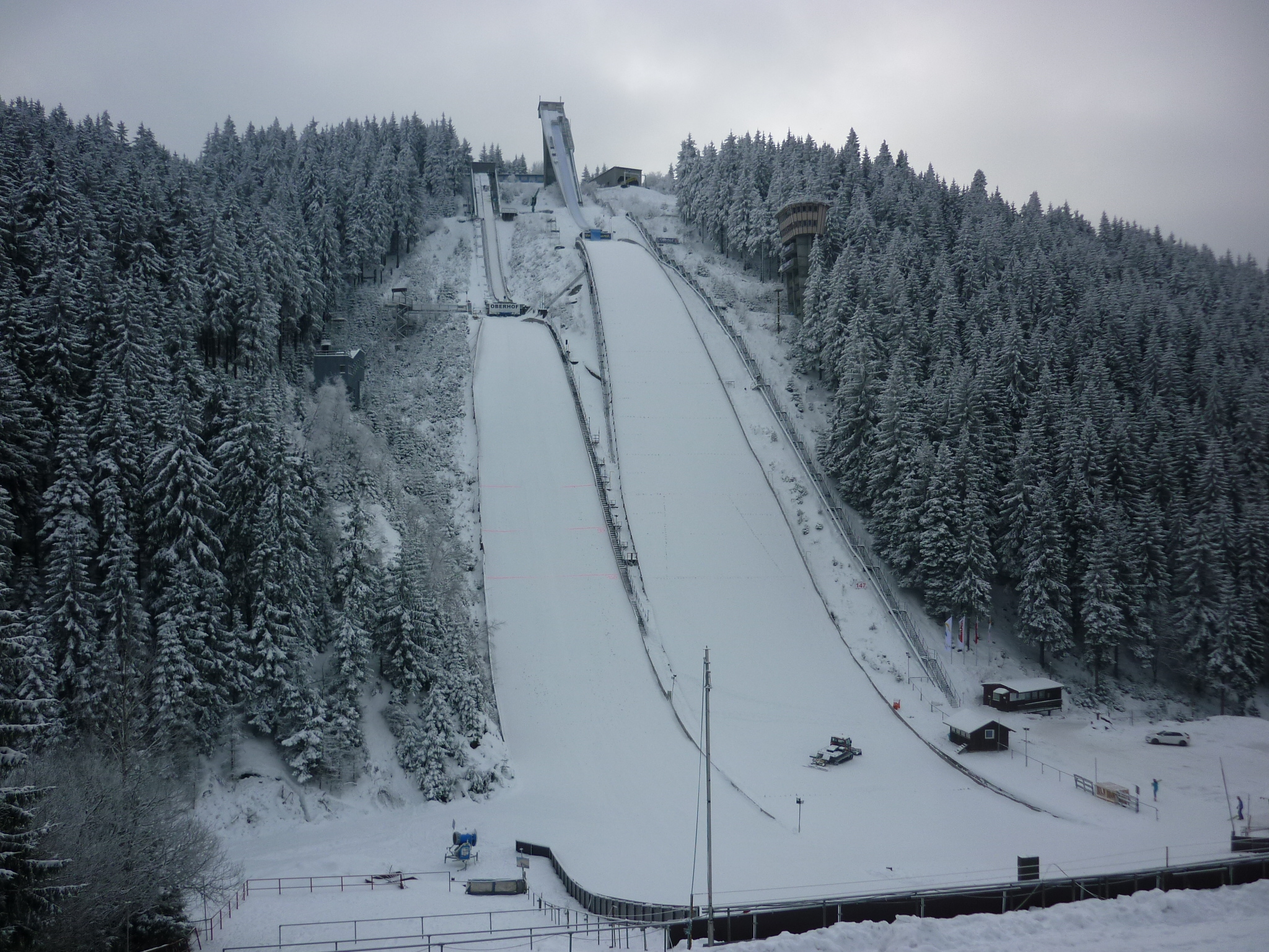 Skijumping hill in Oberhof